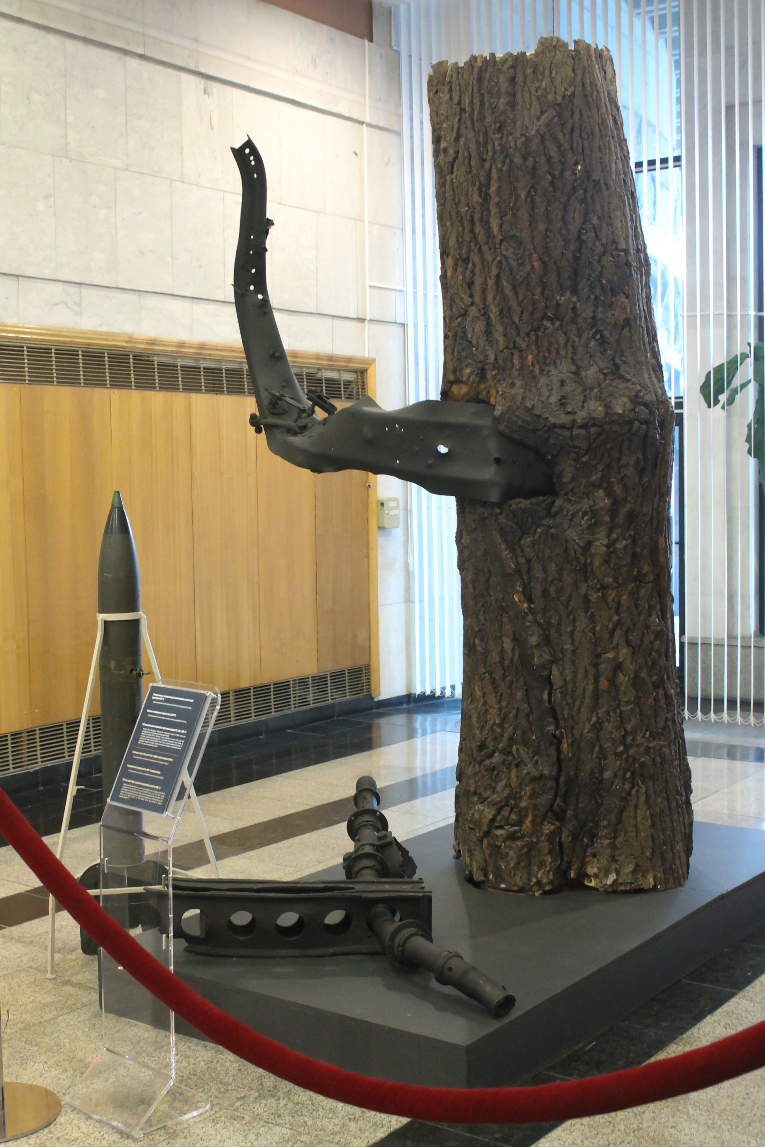 Wiki-tour into the Central museum of Great Patriotic war, Moscow, Russia, August, 3, 2019.